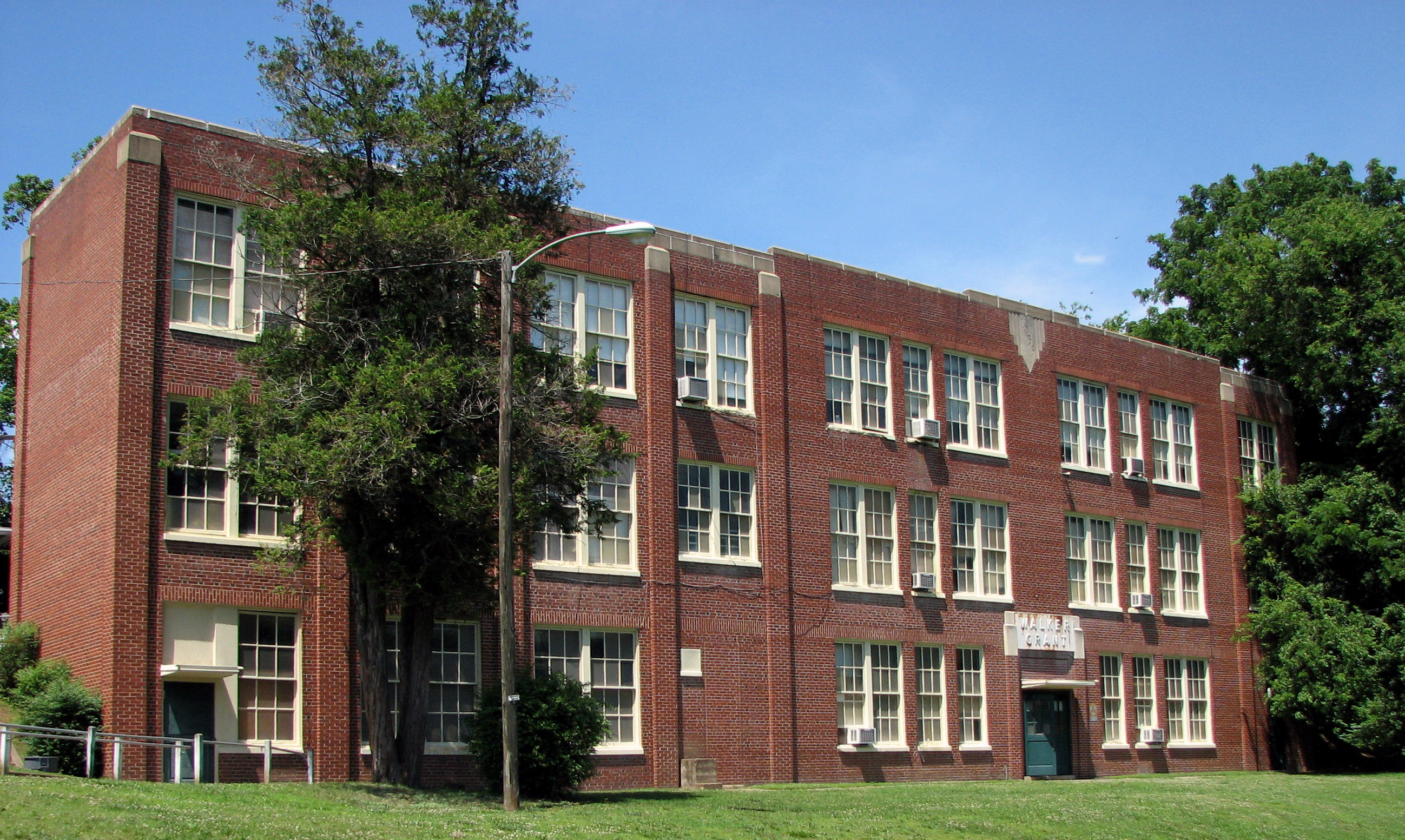 Walker-Grant School. Built in 1935, this was the first Black high school in Fredericksburg, Virginia. Listed on the National Register of Historic Places.